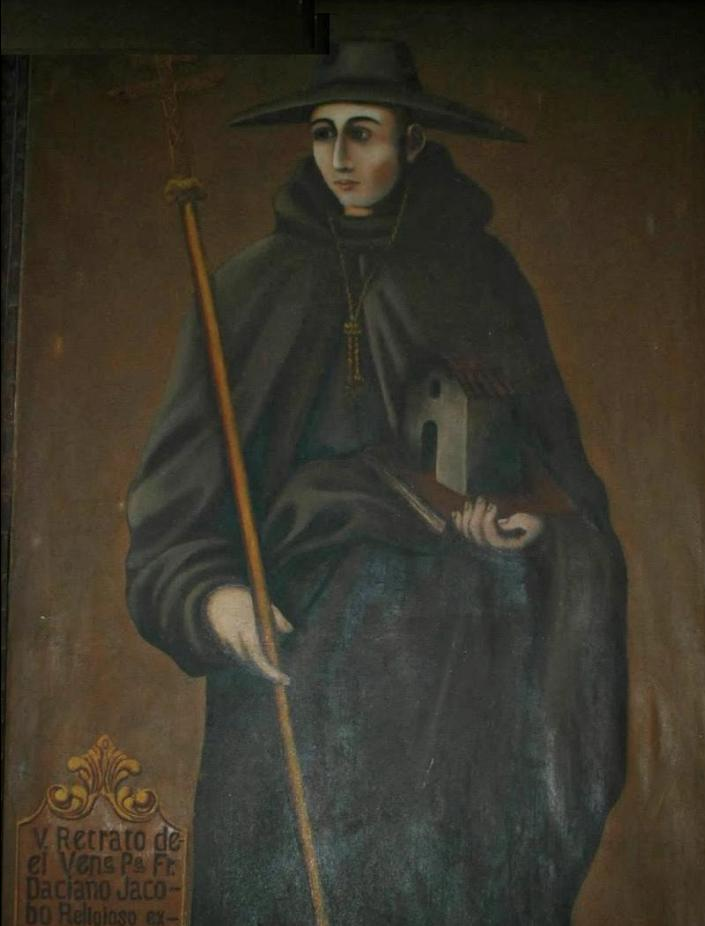 James of Dacia Place: Parish of San Francisco de Asís de Tarecuato, Michoacán, Mexico